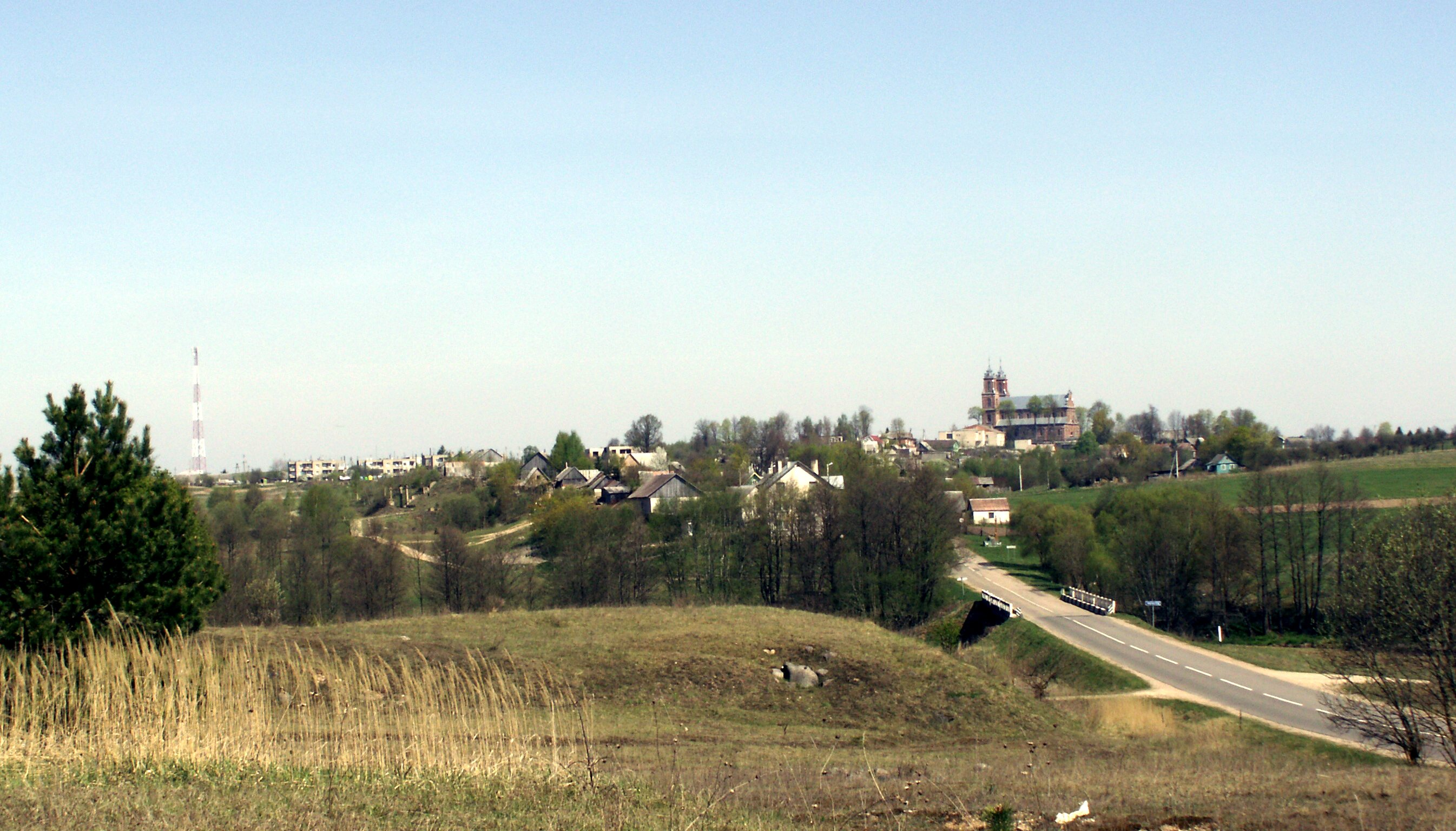 Turgeliai, Šalčininkai district, Lithuania